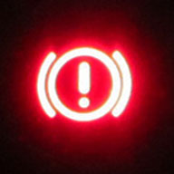 Brake warning light. The light is turned on, indicating that the brake is engaged.